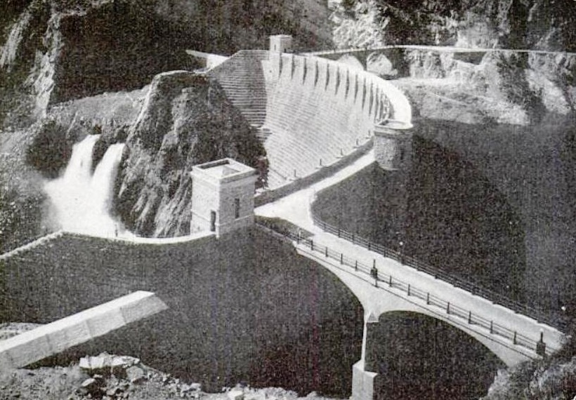 Photograph of the Roosevelt Dam in 1911.